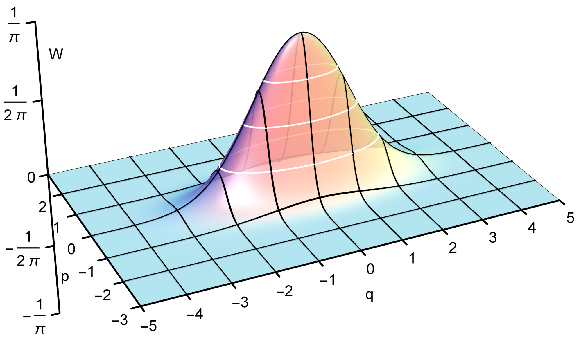 Wigner function of a squeezed coherent (Gaussian) state with squeezing parameter ζ=0.5.